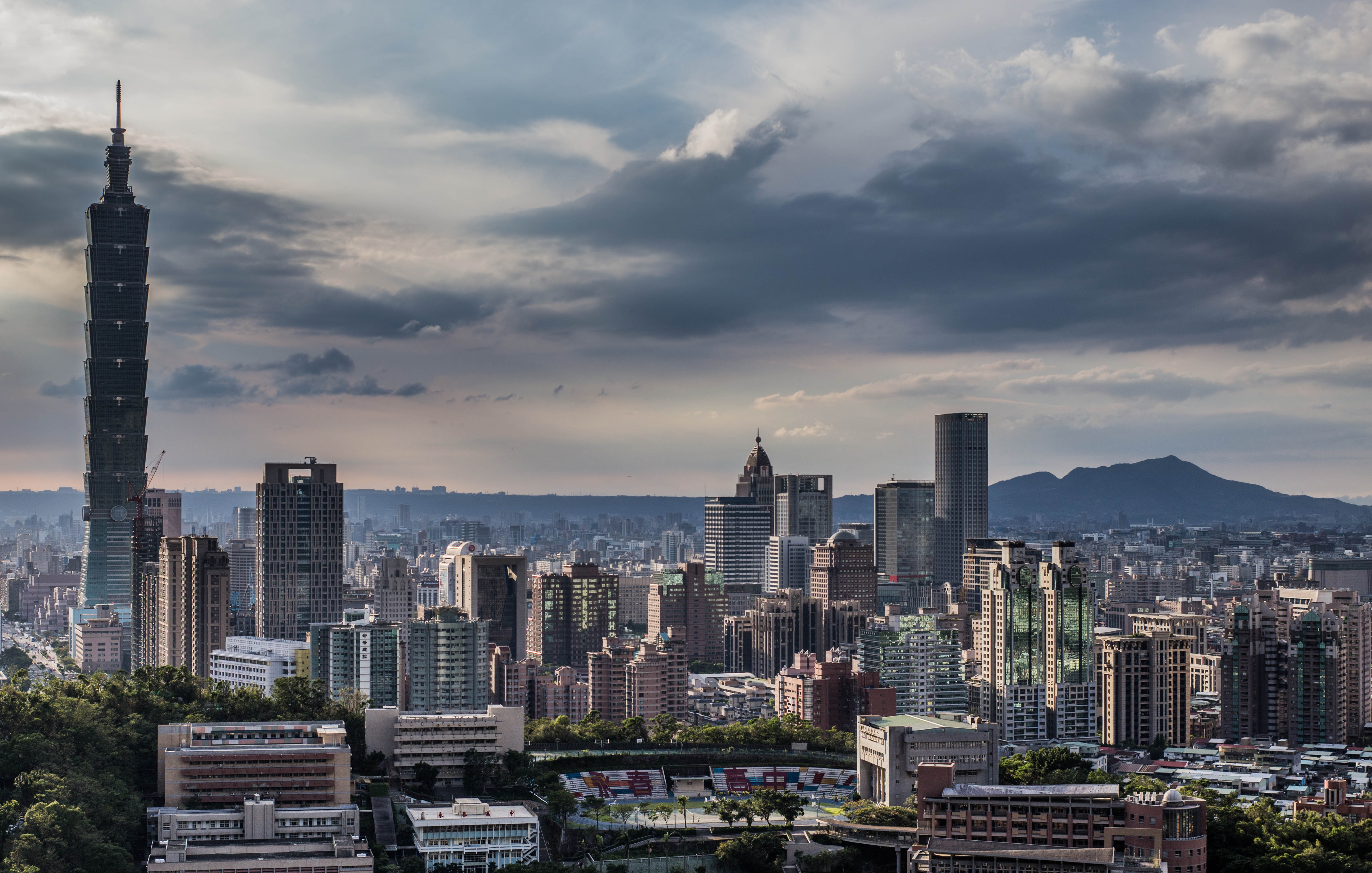 View of Skyline of Taipei, Taiwan from Tiger Mountain